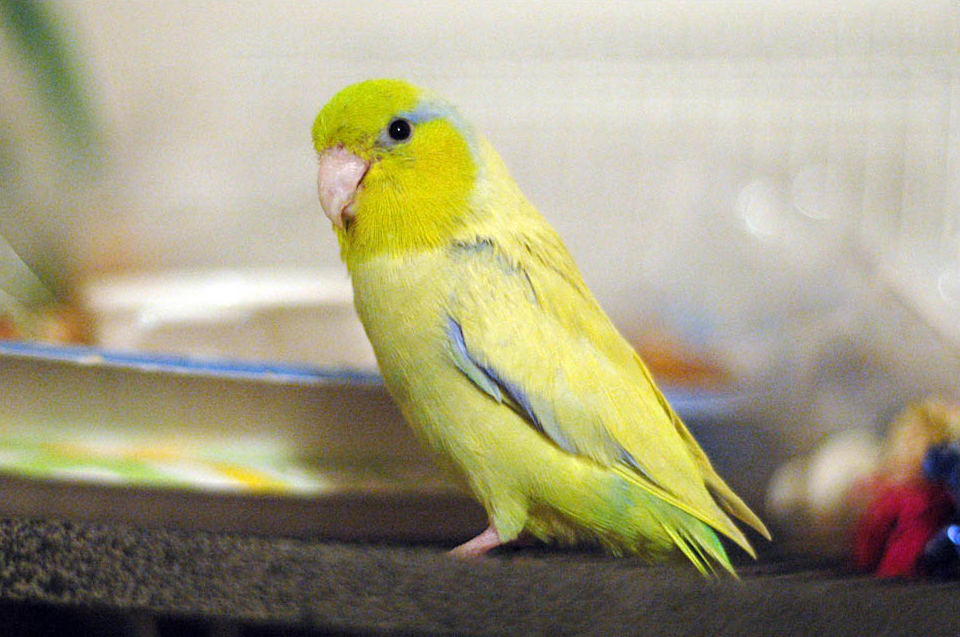 A pet Pacific Parrotlet - yellow colour mutation.